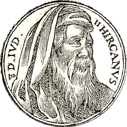 Hyrcanus II